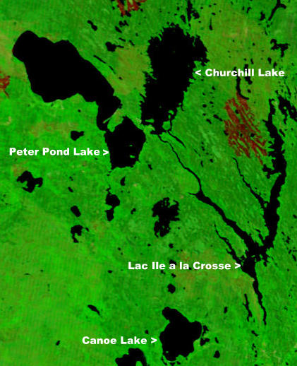 Portion of NASA map showing Peter Pond Lake, Churchill Lake, Lac Ile a la Crosse and Canoe Lake in Saskatchewan. (Captions have been added by Kayoty)